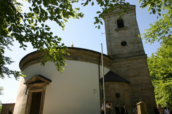 The contemporary church of pilgrimage at the Armesberg (Mount Armes) in the Upper Palatinate.